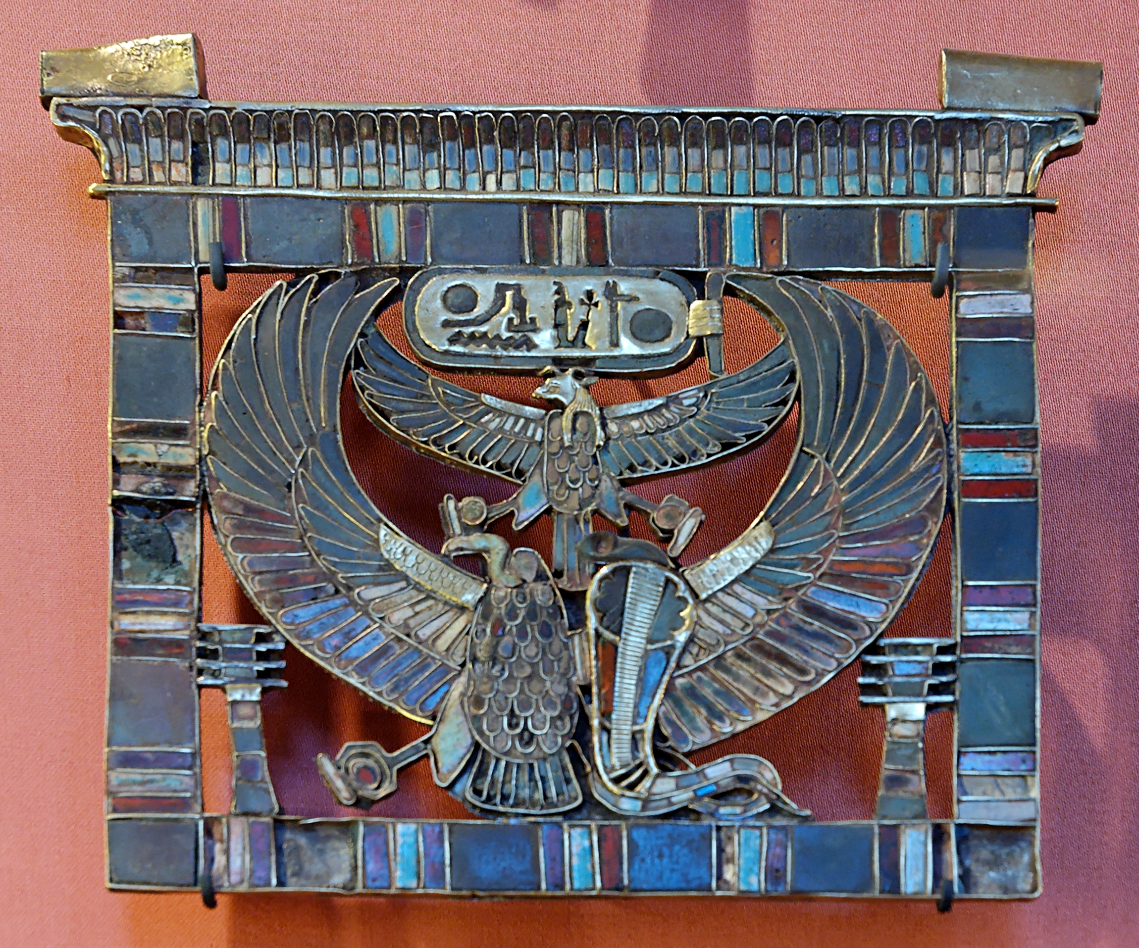 Pectoral bearing the name of Rameses II, New Kingdom.Besides the Egyptian hieroglyphs in his cartouche, the Shen ring, and Djed pillar are shown. (The Goddess of the Vulture, and God of Ureaeus, also shown, Nekhbet and Wadjet.)